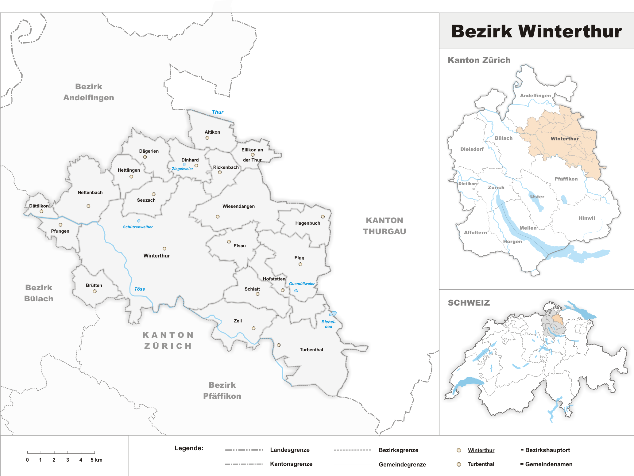 Municipality in the District of Winterthur